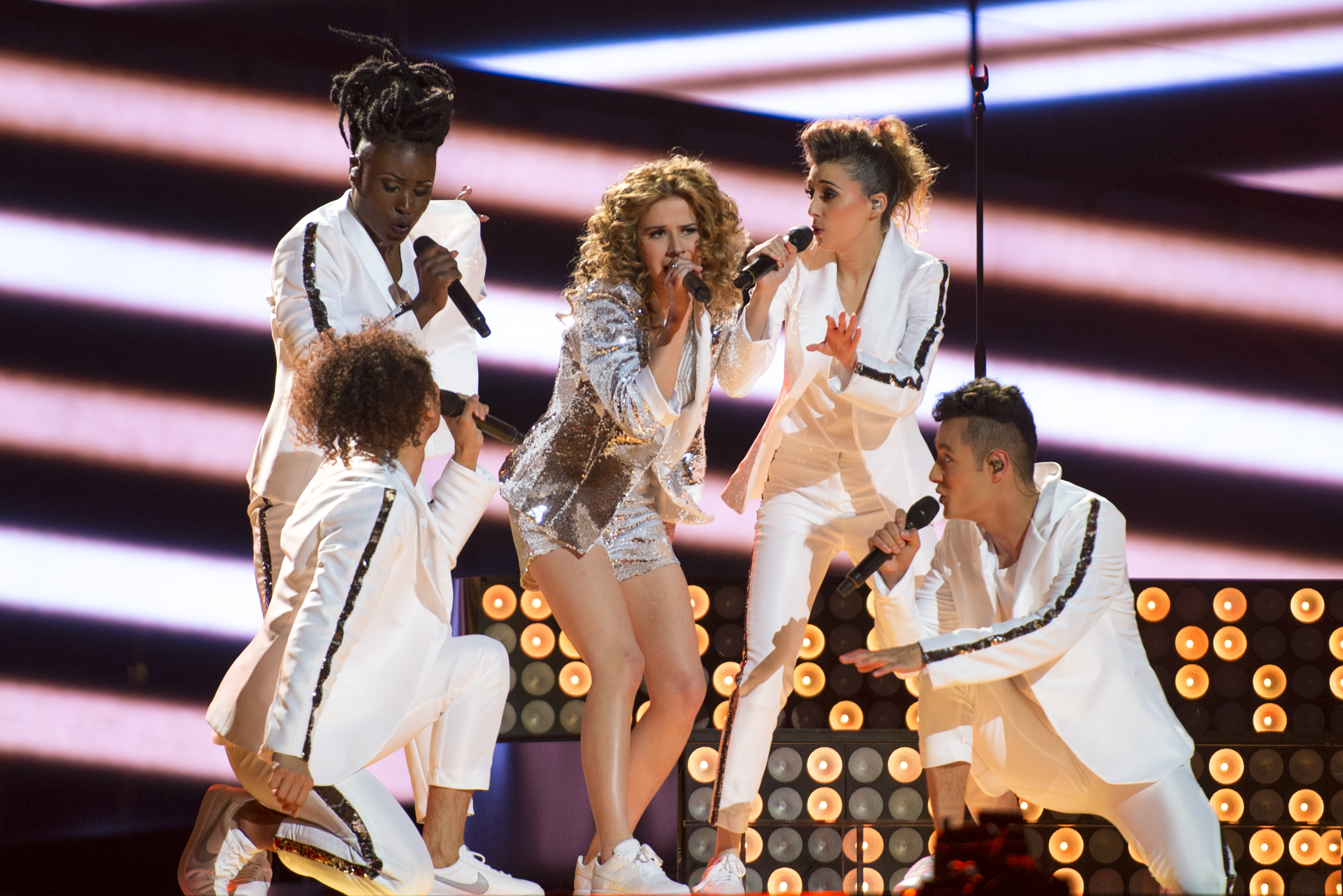 Laura Tesoro representing Belgium with the song "What's The Pressure" during a rehearsal before the second semi final of the Eurovision Song Contest 2016 in Stockholm. (Help translate this text)